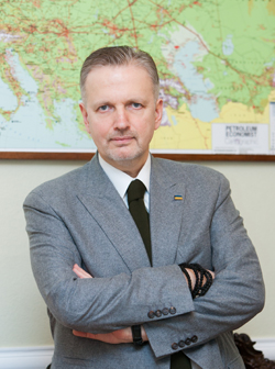 New photo of Goncharuk_AI